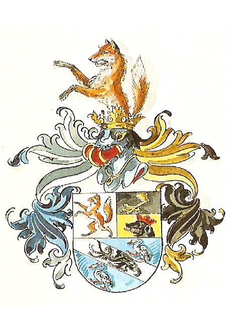 Coat of arms of Theobald Ritter von Fuchs (1852-1943)